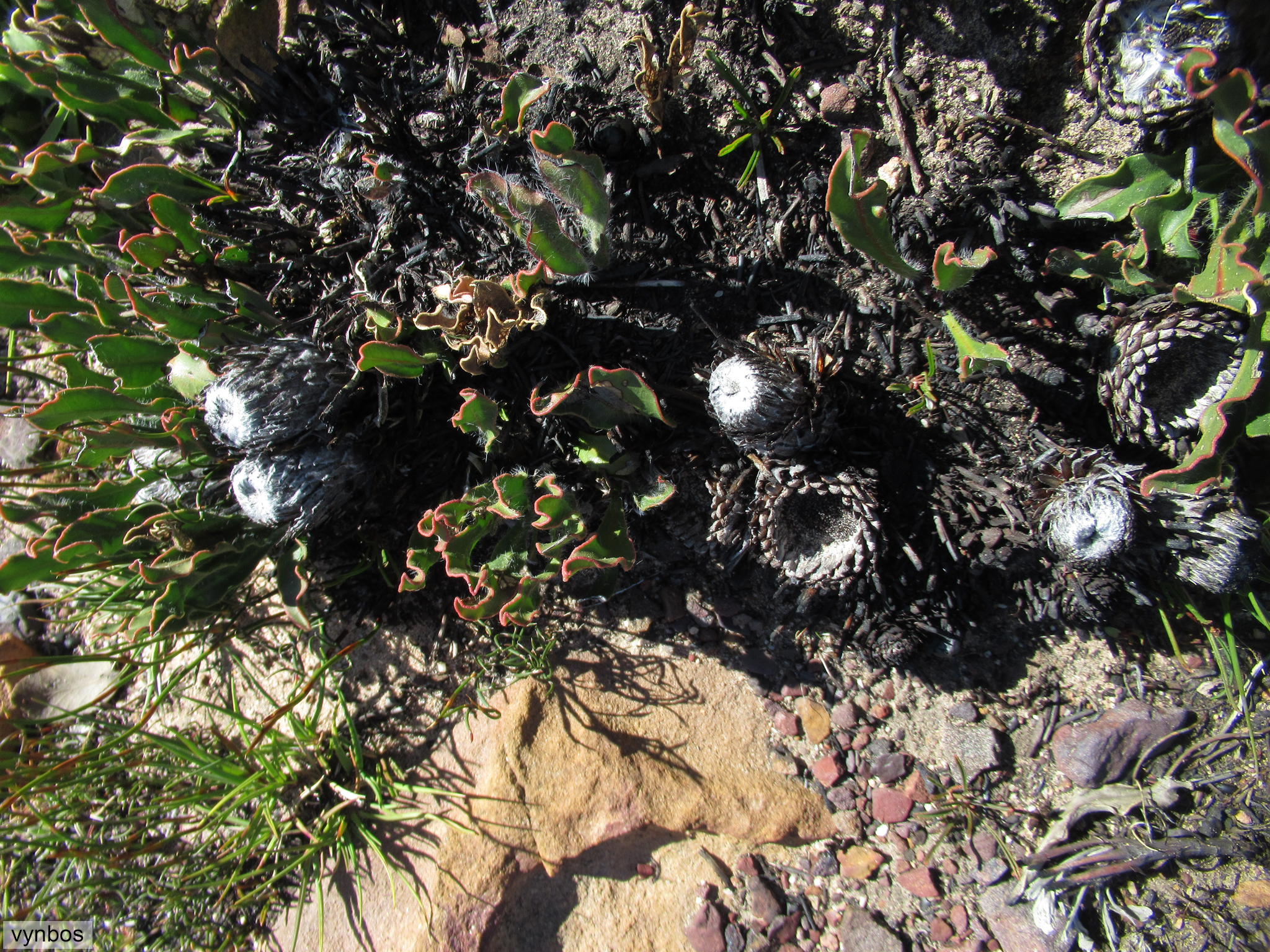 Common Snow Sugarbush (Protea scolopendriifolia)